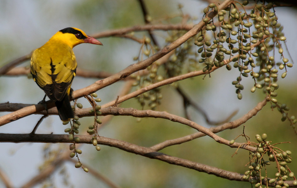 Black-naped Oriole Oriolus chinensis on Lannea coromandelica i.e. Wodier Tree, Moi, GURJAN, Jhingan, Shembat/ Shemat, woddiya maram, Indian ash tree, moya, jia, jiola, goddana-mara, mavedi, mohin, godda, gumpina, kuratige, udimara, moi, kaarilav, kaladam, karas, karayam, otiyan-maram, uthi, mendashingi, shemat, shimati, shinti, hallunde, indramai, ajashringi, jhingini, oti or ajasrngi at Mahavir Harina Vanasthali National Park, Hyderabad, India.